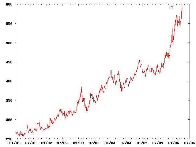 London Bullion Market Association morning price fixings for gold in USD from January 1, 2001 through April 6, 2006. Created with gnuplot.